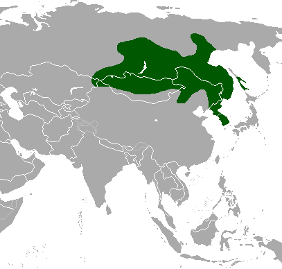 Range map of the Siberian musk deer (Moschus moschiferus) according to Nyambayar, B., Mix, H. & Tsytsulina, K. 2008. Moschus moschiferus. In: IUCN 2011. IUCN Red List of Threatened Species. Version 2011.1. . Downloaded on 19 July 2011. Source=Base map derived from File:BlankMap-World.png.